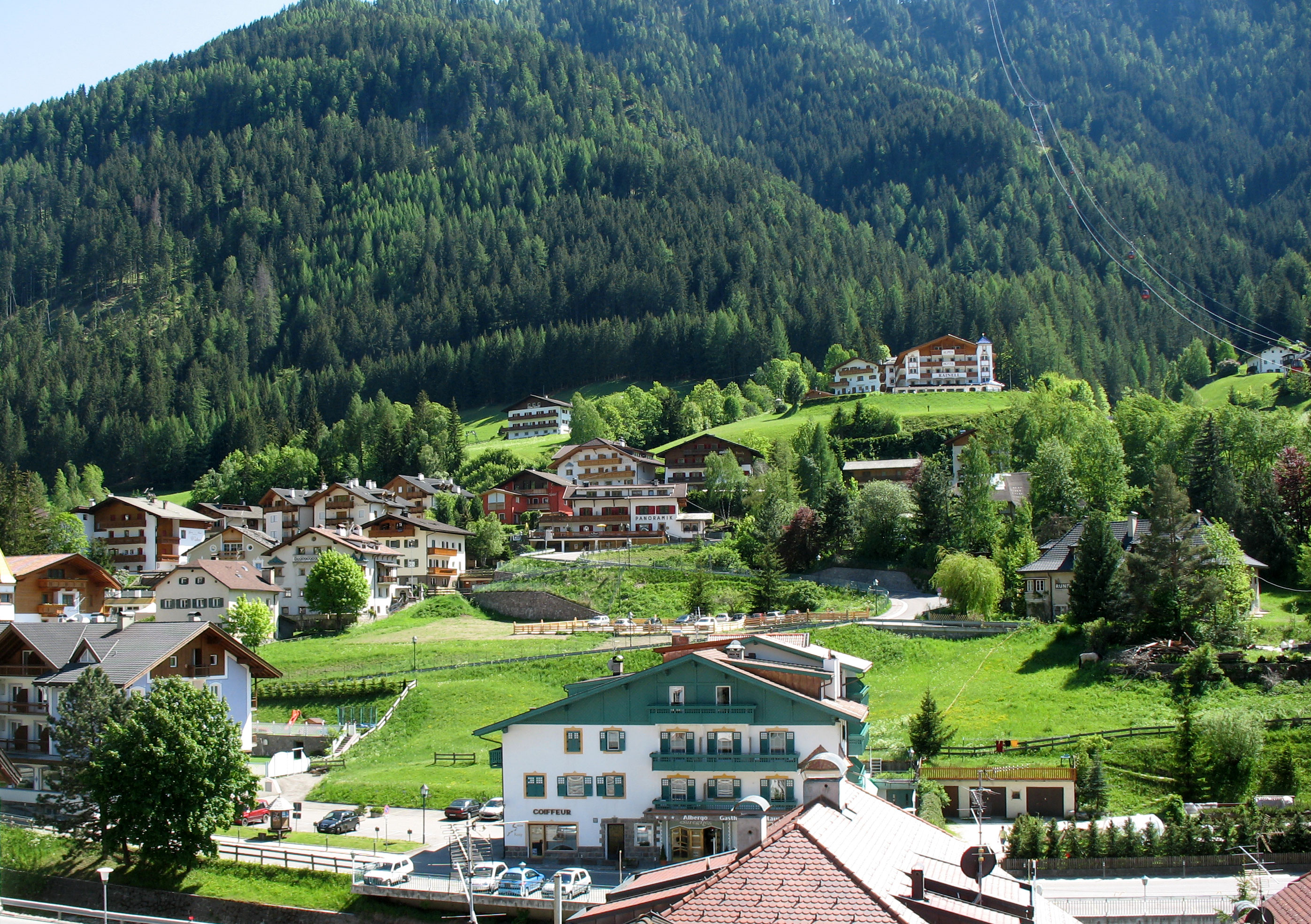 Überwasser in Urtijëi in Val Gardena, South Tyrol, as of May 2007